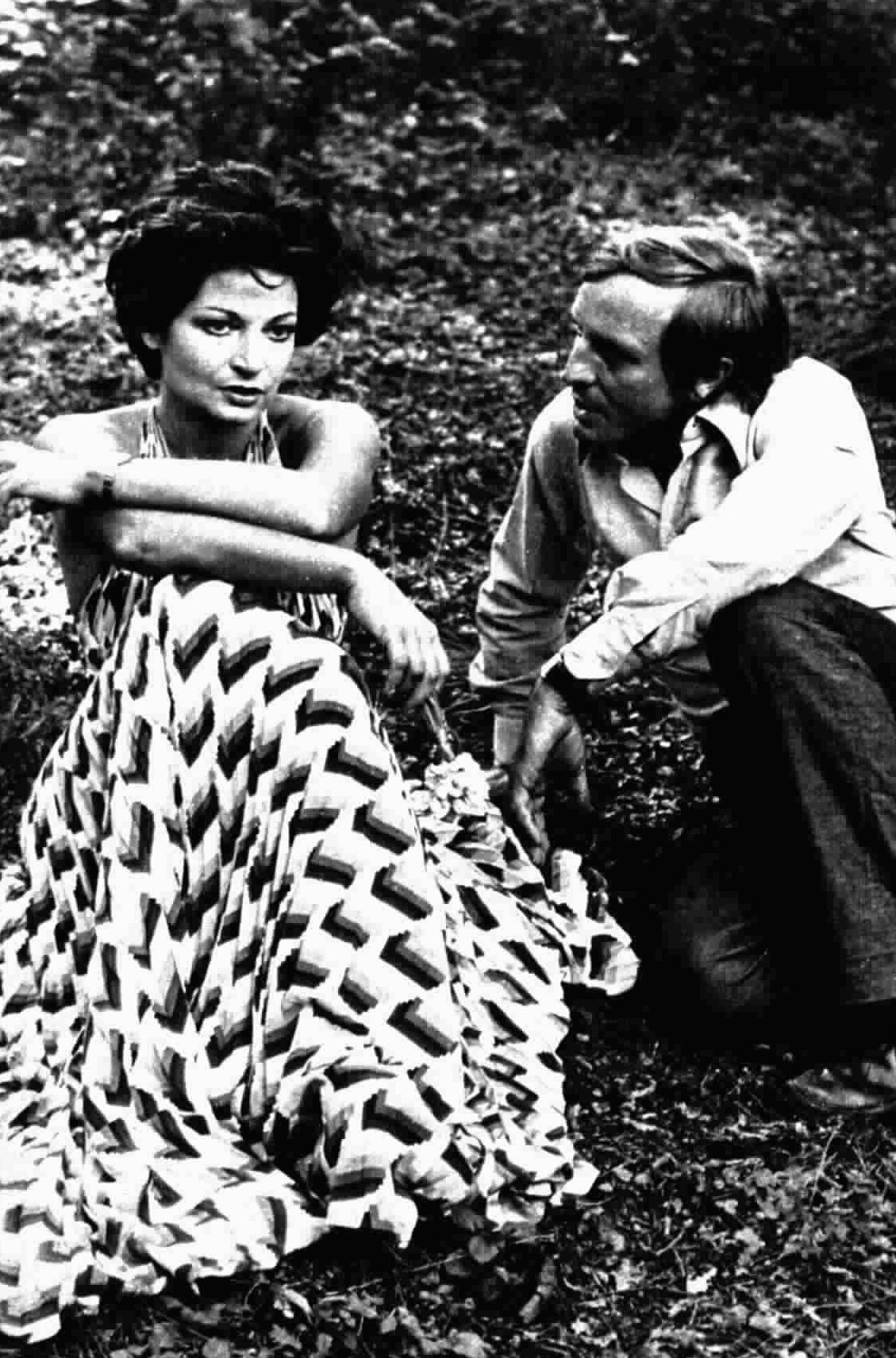 Italian actors Laura Gianoli and Walter Maestosi